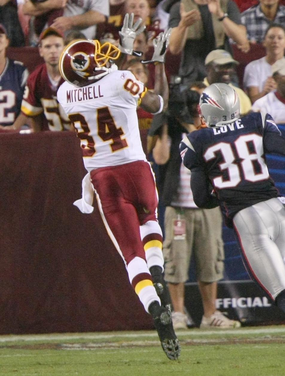 Washington Redskins wide receiver Marko Mitchell catches a touchdown pass in a preseason game against the New England Patriots on August 28, 2009.